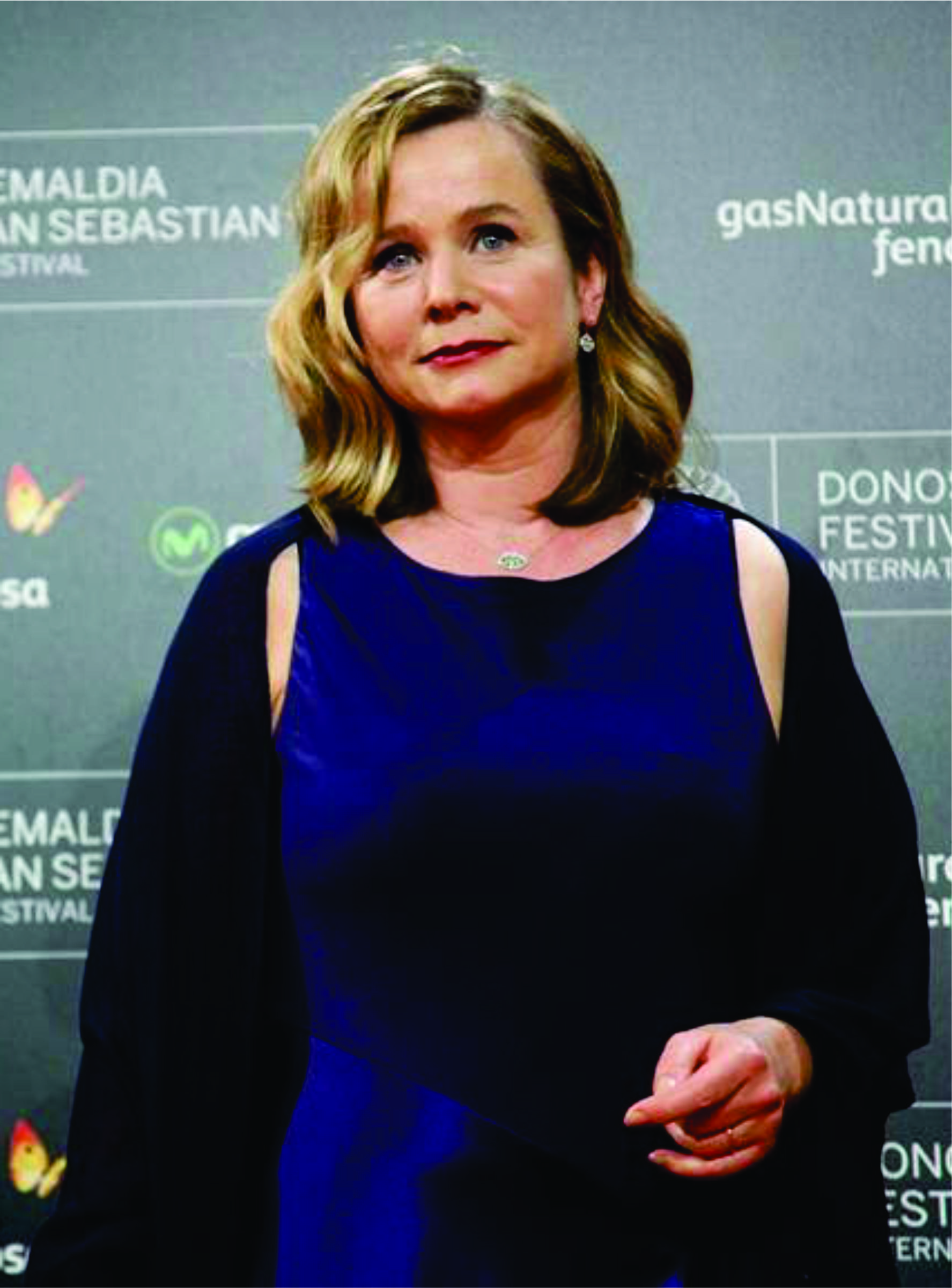 Actress Emily Watson at the 2016 San Sebastían Film Festival in Spain.